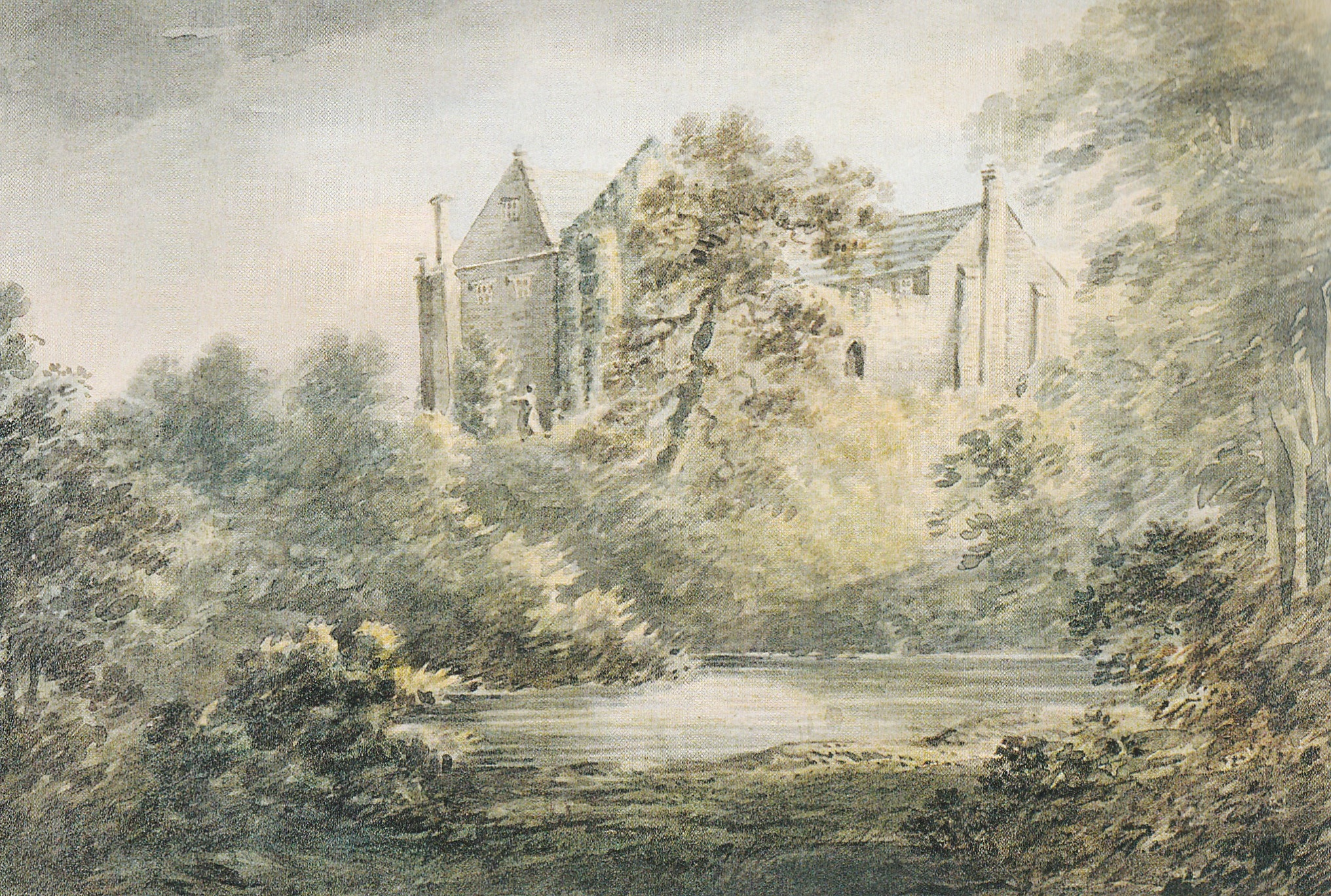 View entitled "Torwood" dated November (1793), watercolour by Rev John Swete (d.1821) of Torwood House in the parish of Tor Mohun, Devon. Devon Record Office DRO 564M/F4/18